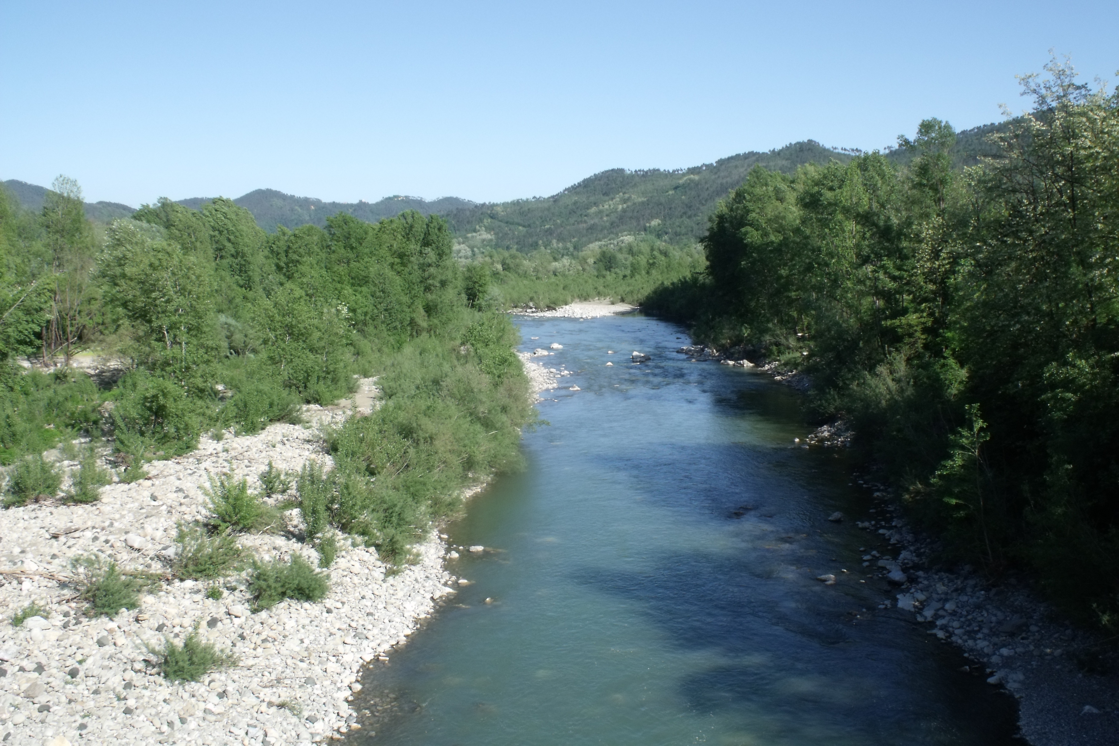 The Vara River near Borghetto di Vara, Province of La Spezia, Liguria, Italy